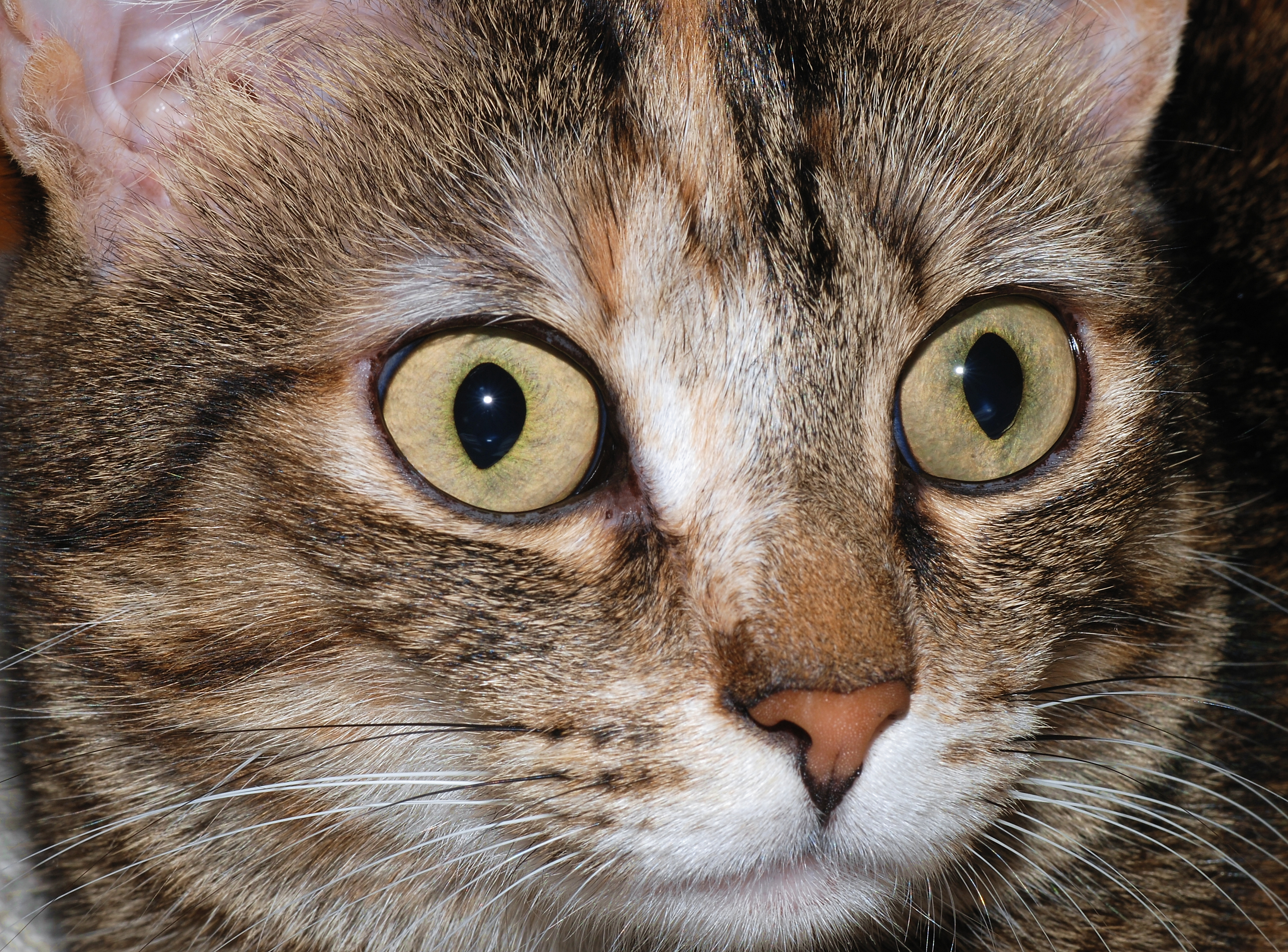 Detail on the head of a tabby she-cat (Felis silvestris catus). Photo taken in Lisboa, Portugal.